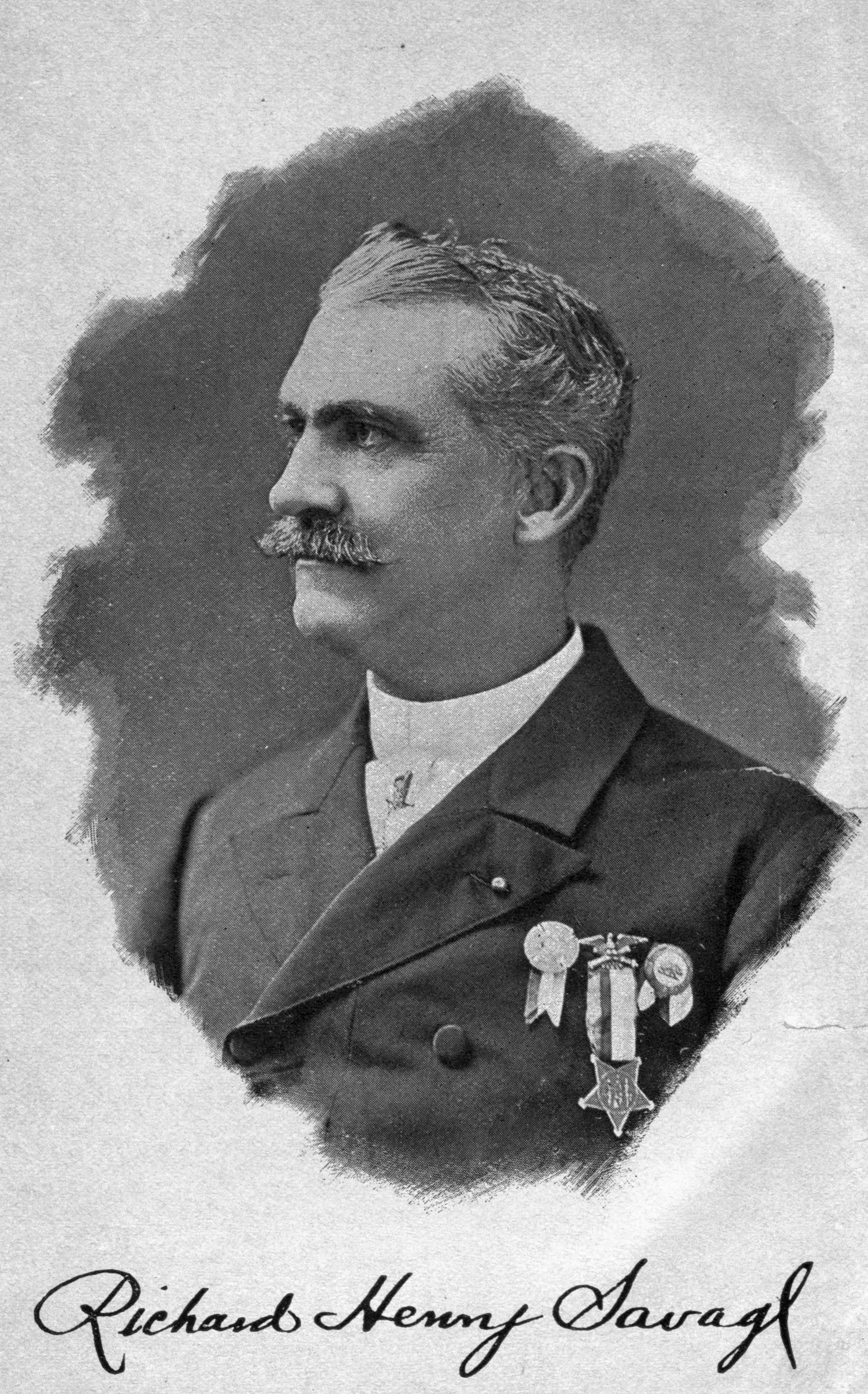 Portrait of Richard Henry Savage taken from his 1894 book The Anarchist: A Story of To-Day.